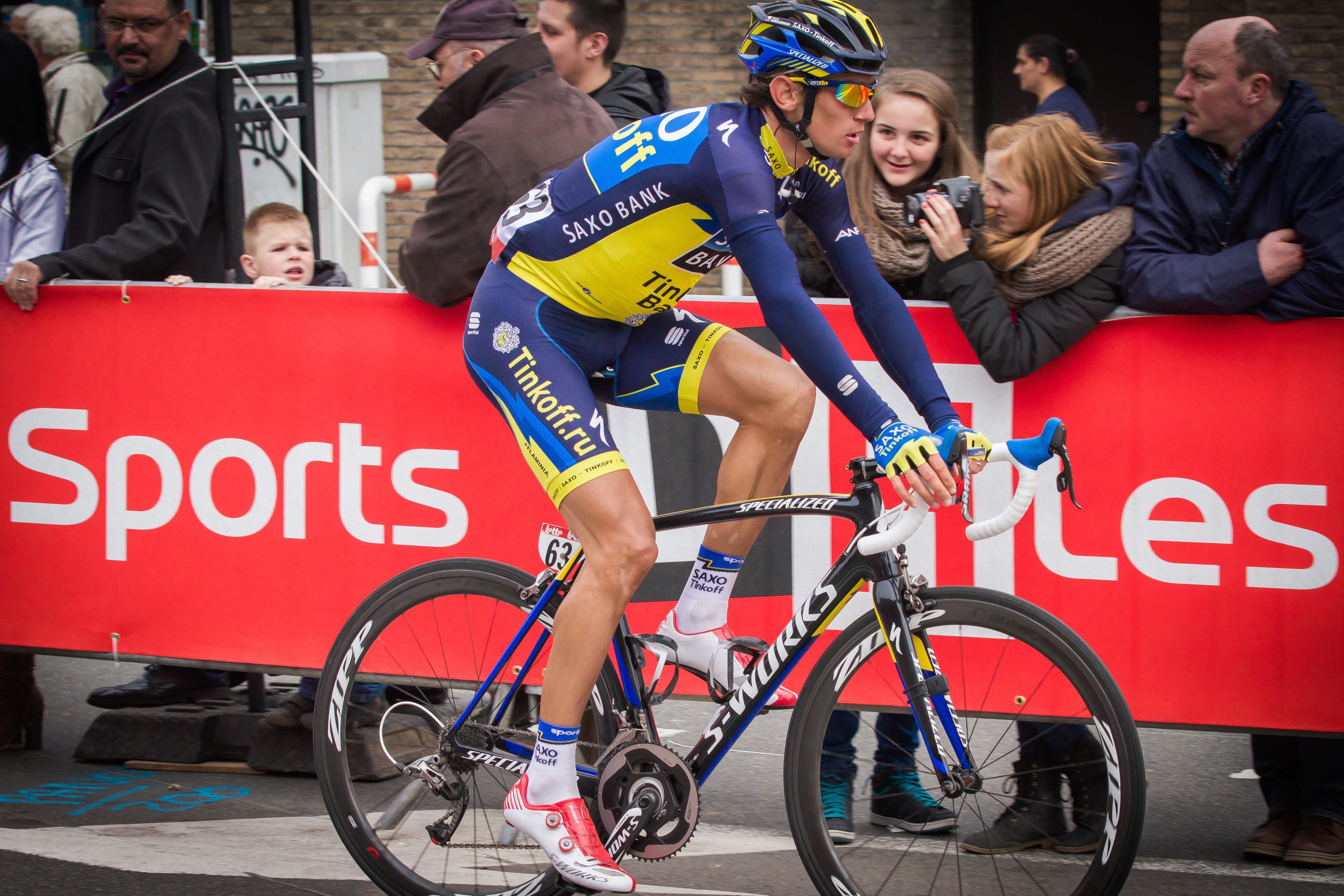 Roman Kreuziger of Saxo-Tinkoff, who won the Amstel Gold Race the week before, and some young fans. Liege-Bastogne-Liege race, 2013